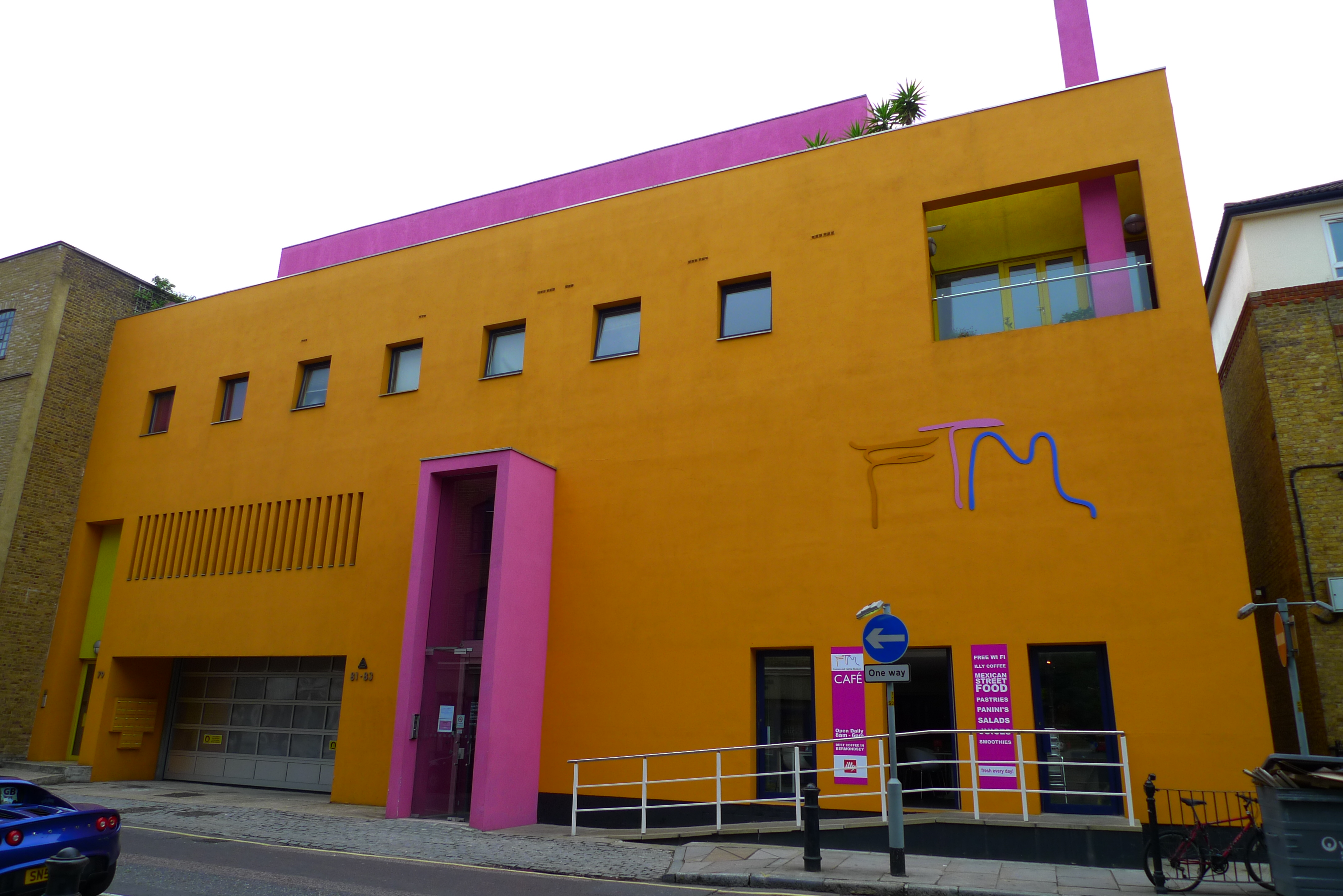 A very colourful museum indeed. Address: 83 Bermondsey Street. Owner: (website). Links: Randomness Guide to London